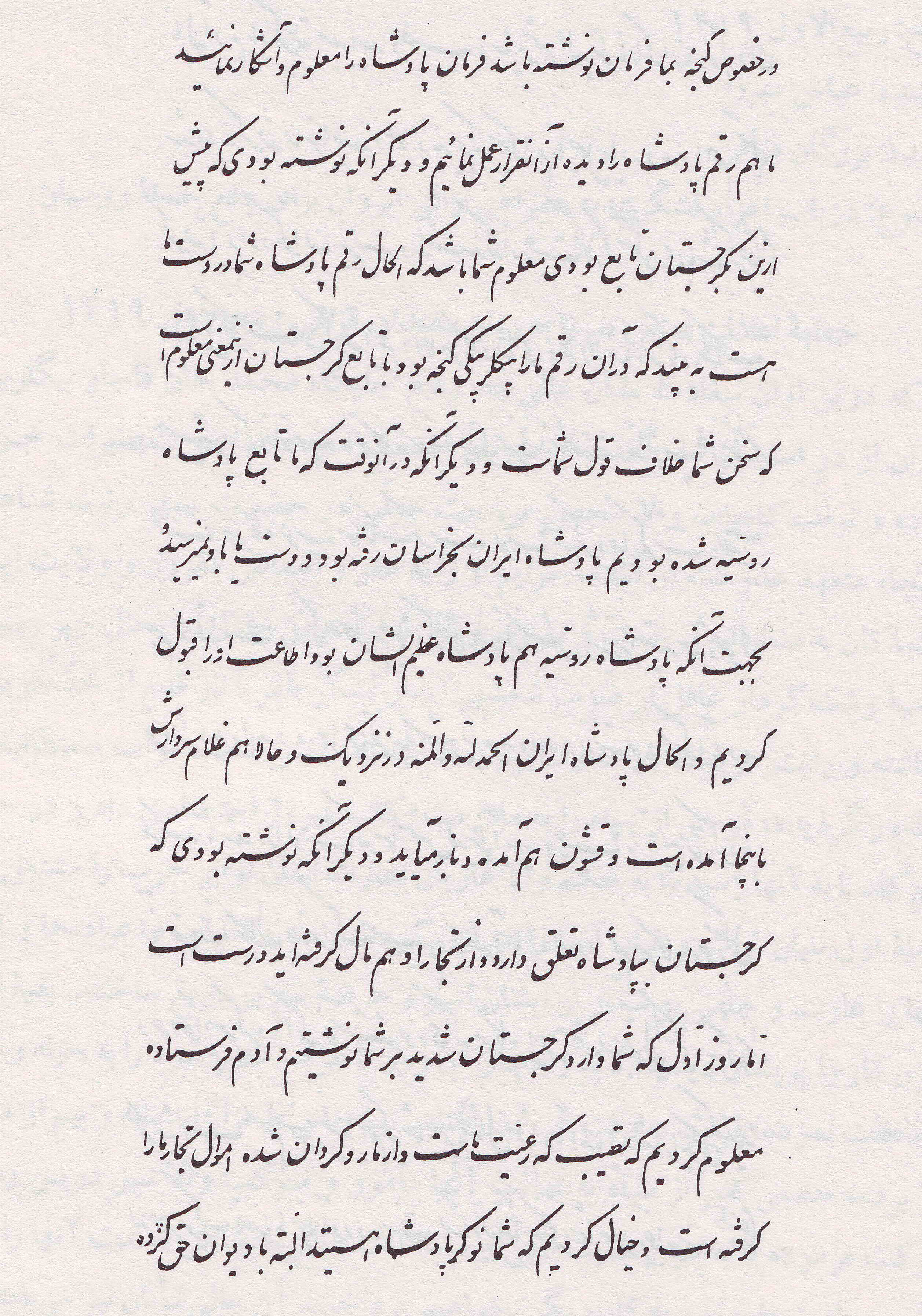 Taken from pg 161 of Iranian foreign office(Bureau for Publication of Documents), "Some documents of relations between Caucasia and Iran". Sample from the manuscript of Javad khan Ziyad oghlu Qajar1804. Copyright does not apply as the text is taken from a manuscript from 200 years ago. The author of the manuscript,Javad khan Ziyad oghlu Qajar , passed away at least 200 years ago.